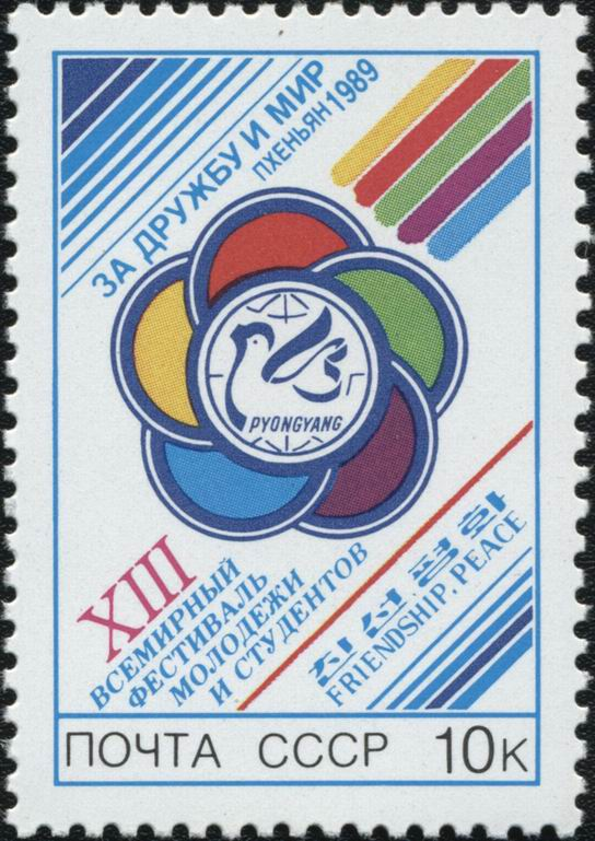 A USSR stamp